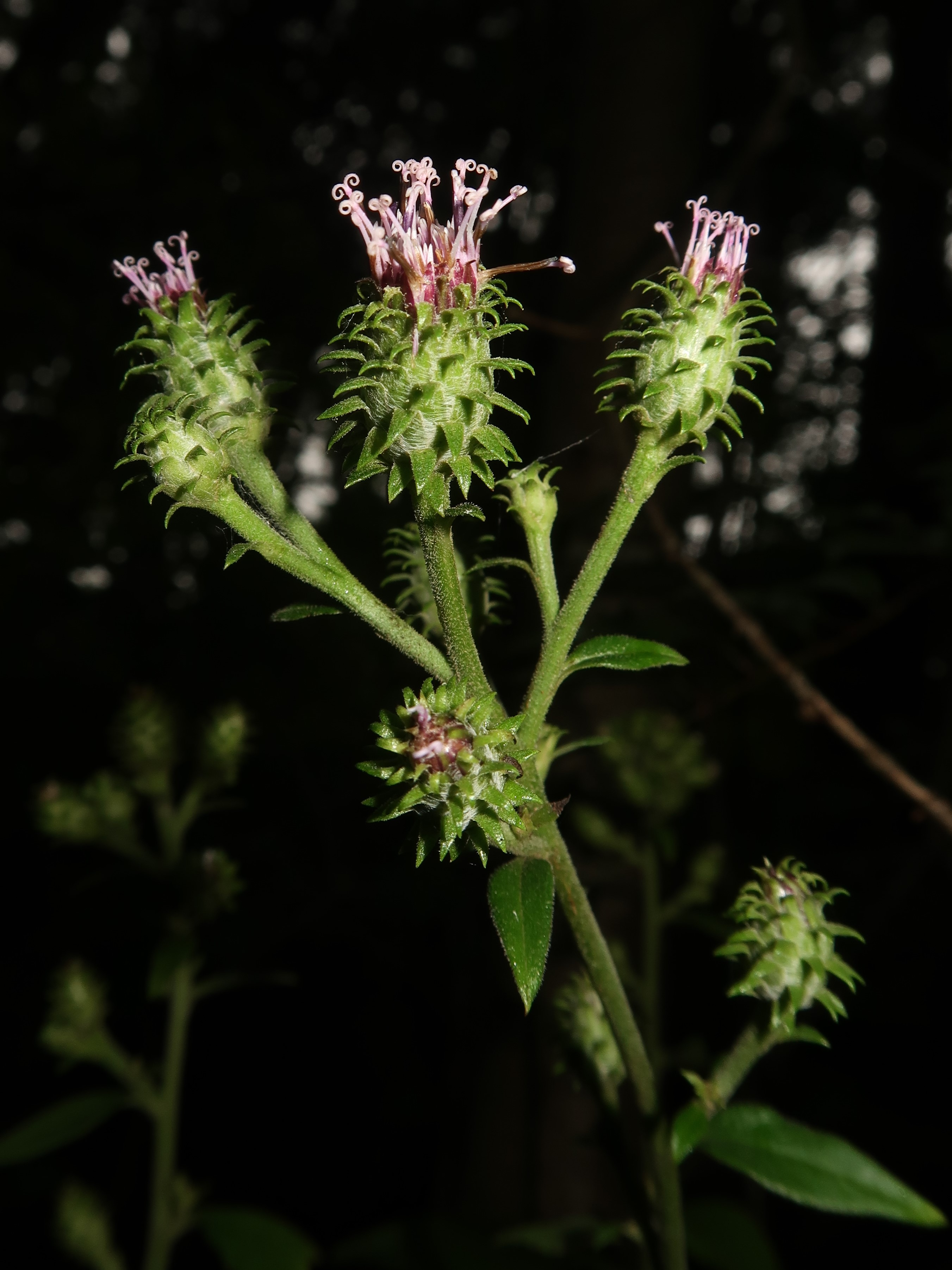 Saussurea savatieri, Mount Sankomuro-san, Ibaraki pref., Japan